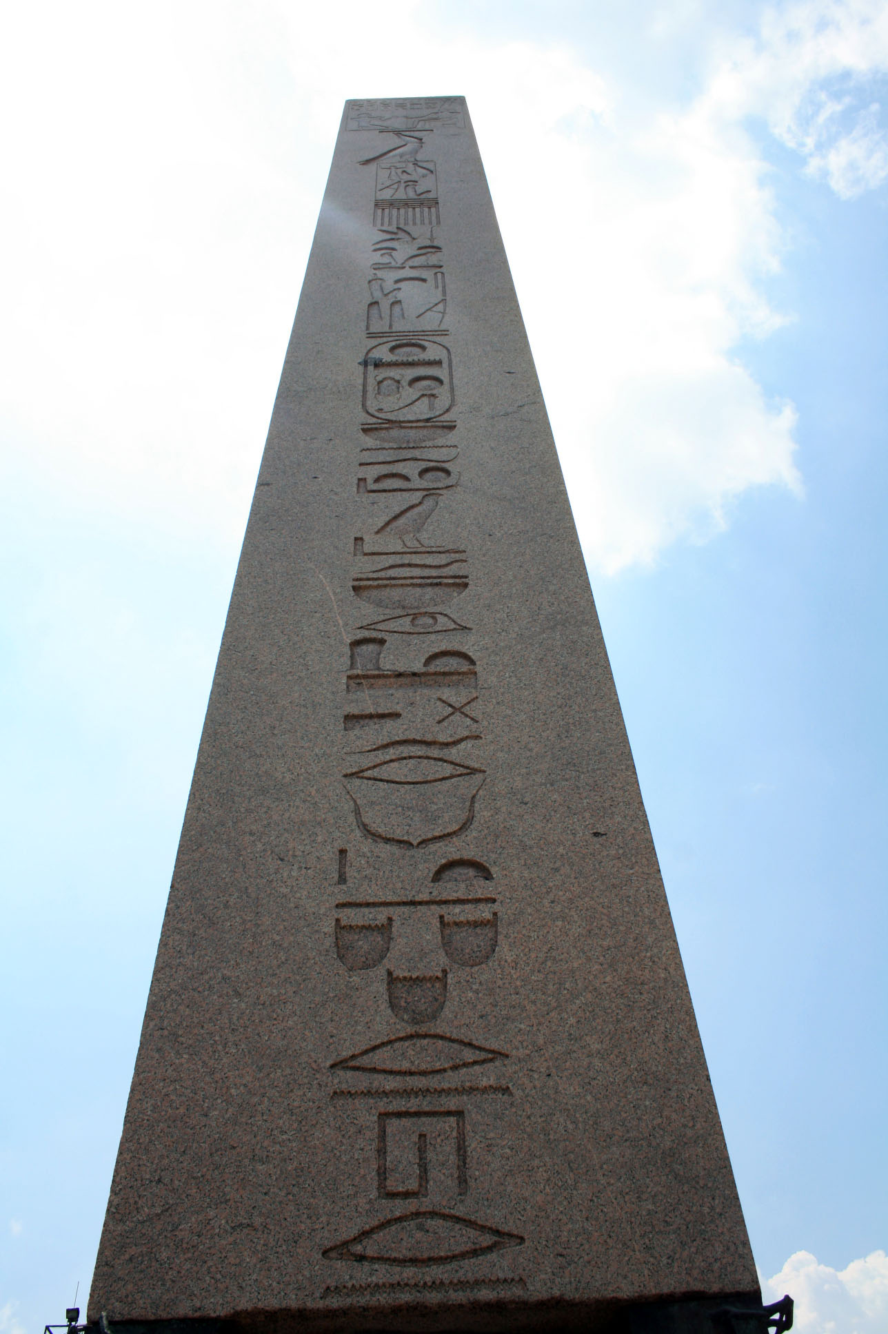 One side of Istanbul's Obelisk of Theodosius.